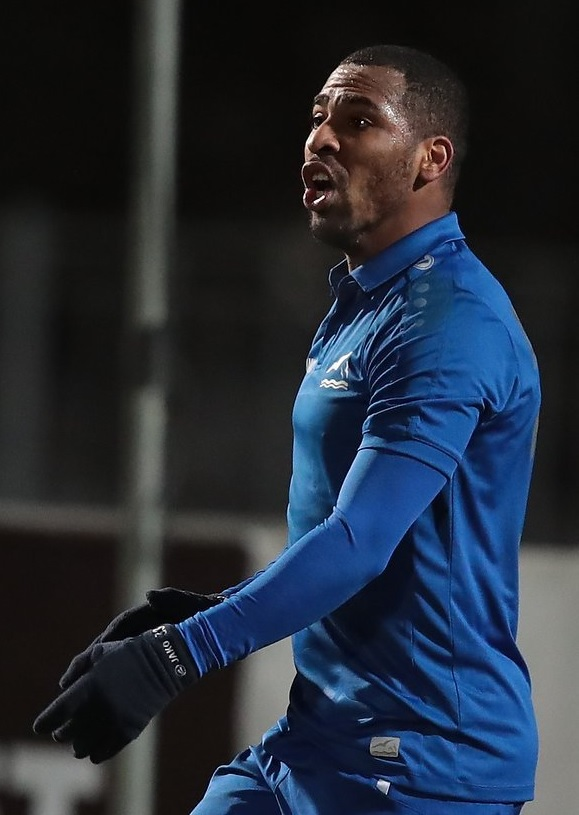 Allef with FC Baltika Kaliningrad in a Russian Cup game against FC Torpedo Moscow.